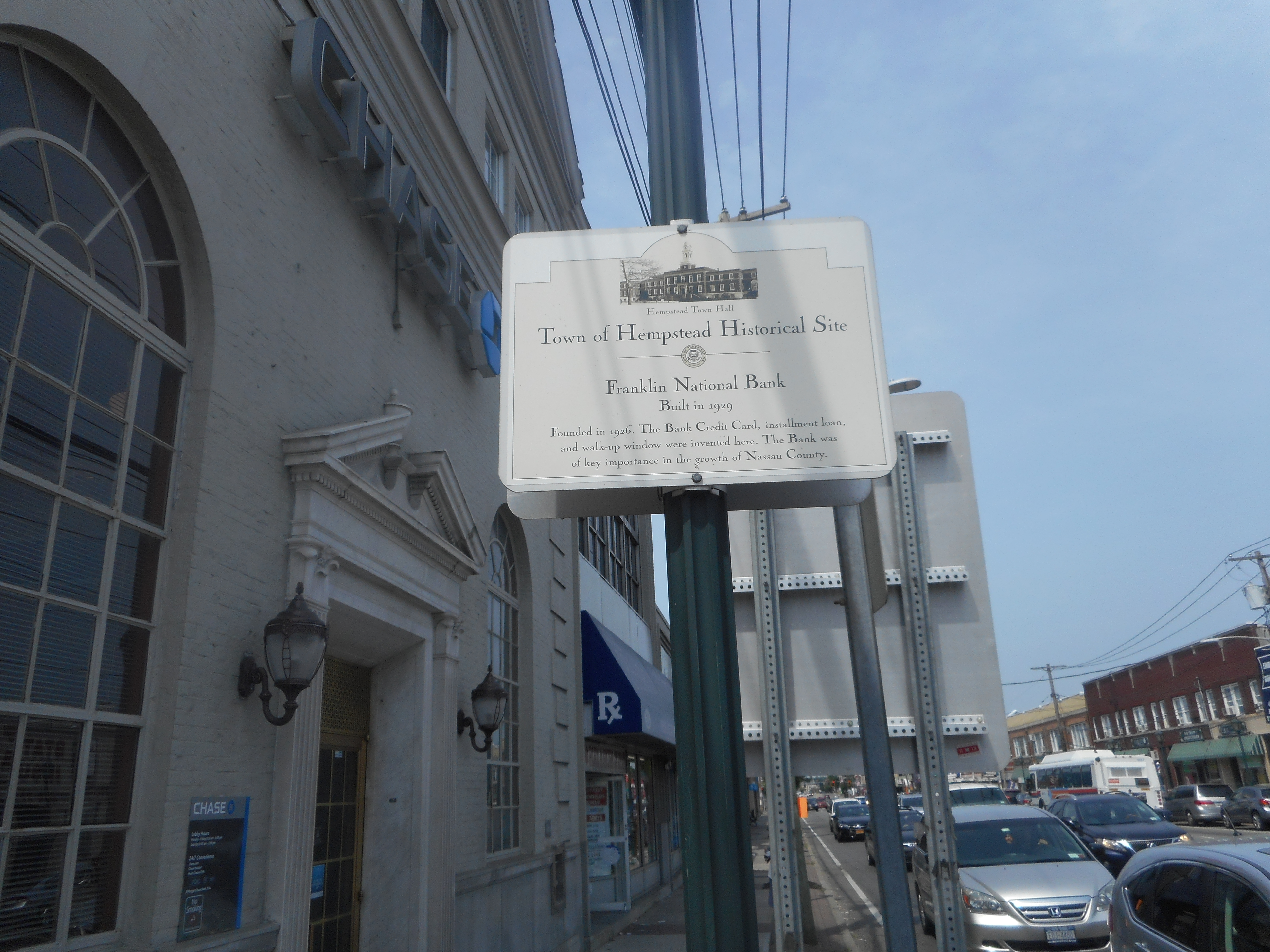 Sign for the historic Franklin National Bank, on the southwest corner of Hempstead Turnpike (NY 24) and James Street, in Franklin Square, New York.